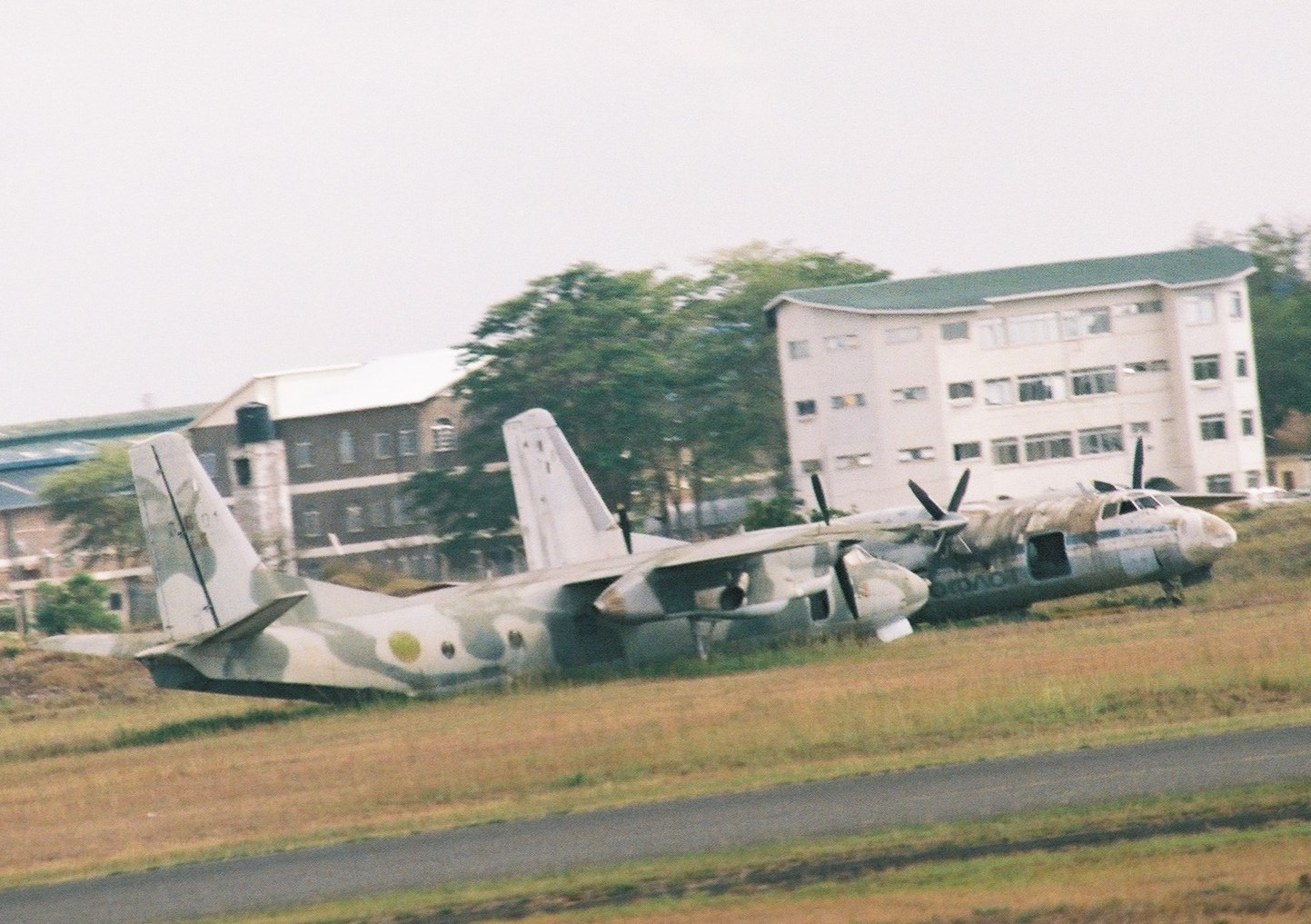 This An-26 was given to Somalia by Libya in 1990 and has been stored at NBO since 1993. also visible: 3C-ZZA Antonov 24, former Aeroflot a/c. Nairobi - Jomo Kenyatta (Embakasi) (NBO / HKJK) Kenya, April 2009.